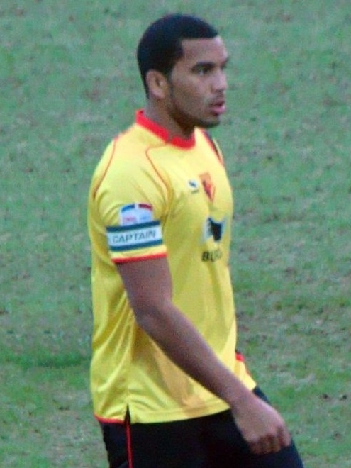 Reworked picture of Adrian Mariappa, based on image here